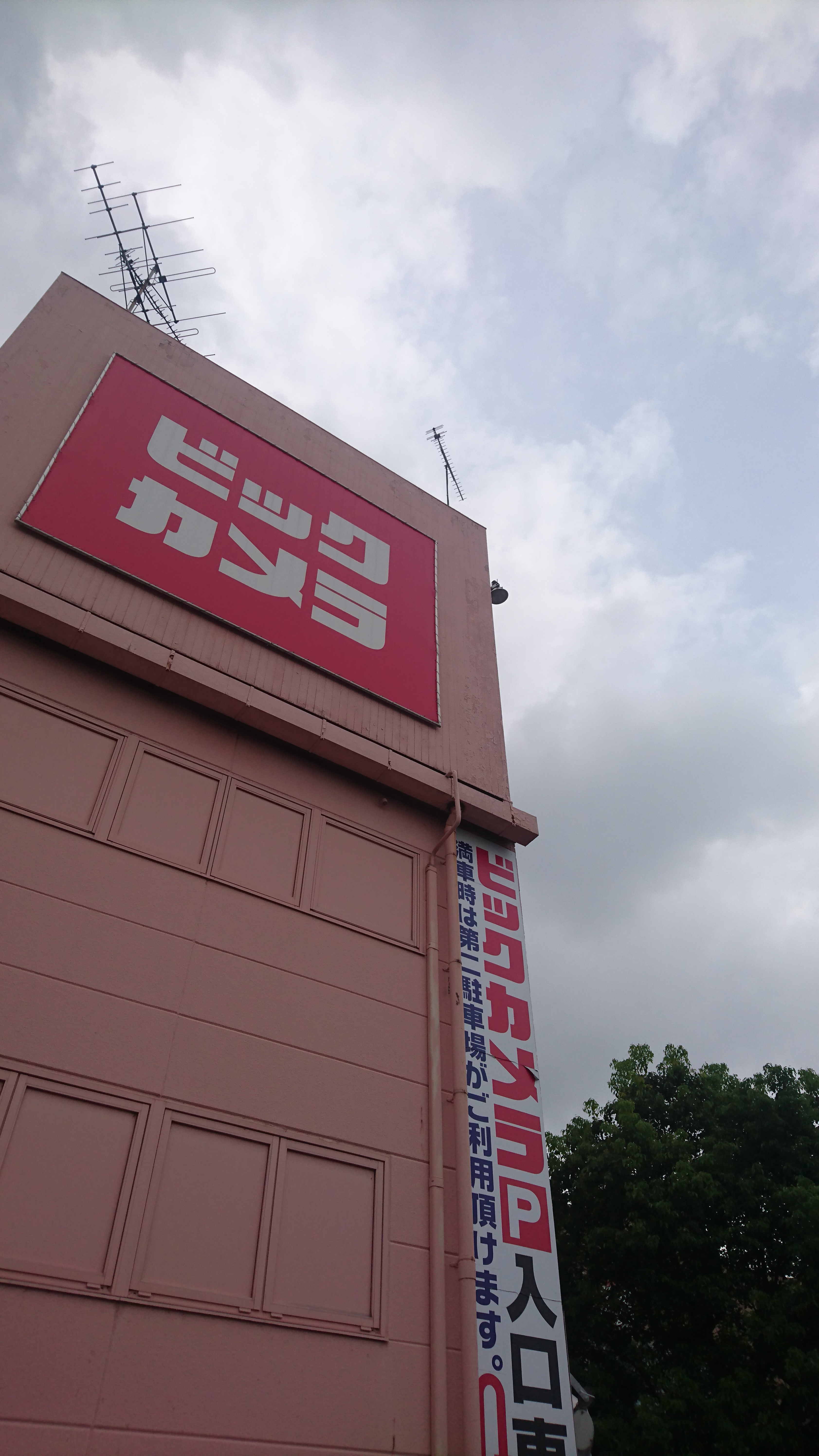 Bic-Camera Takasaki-Higashiguchi store